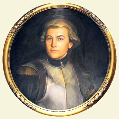 Count Maurice de Benyovszky